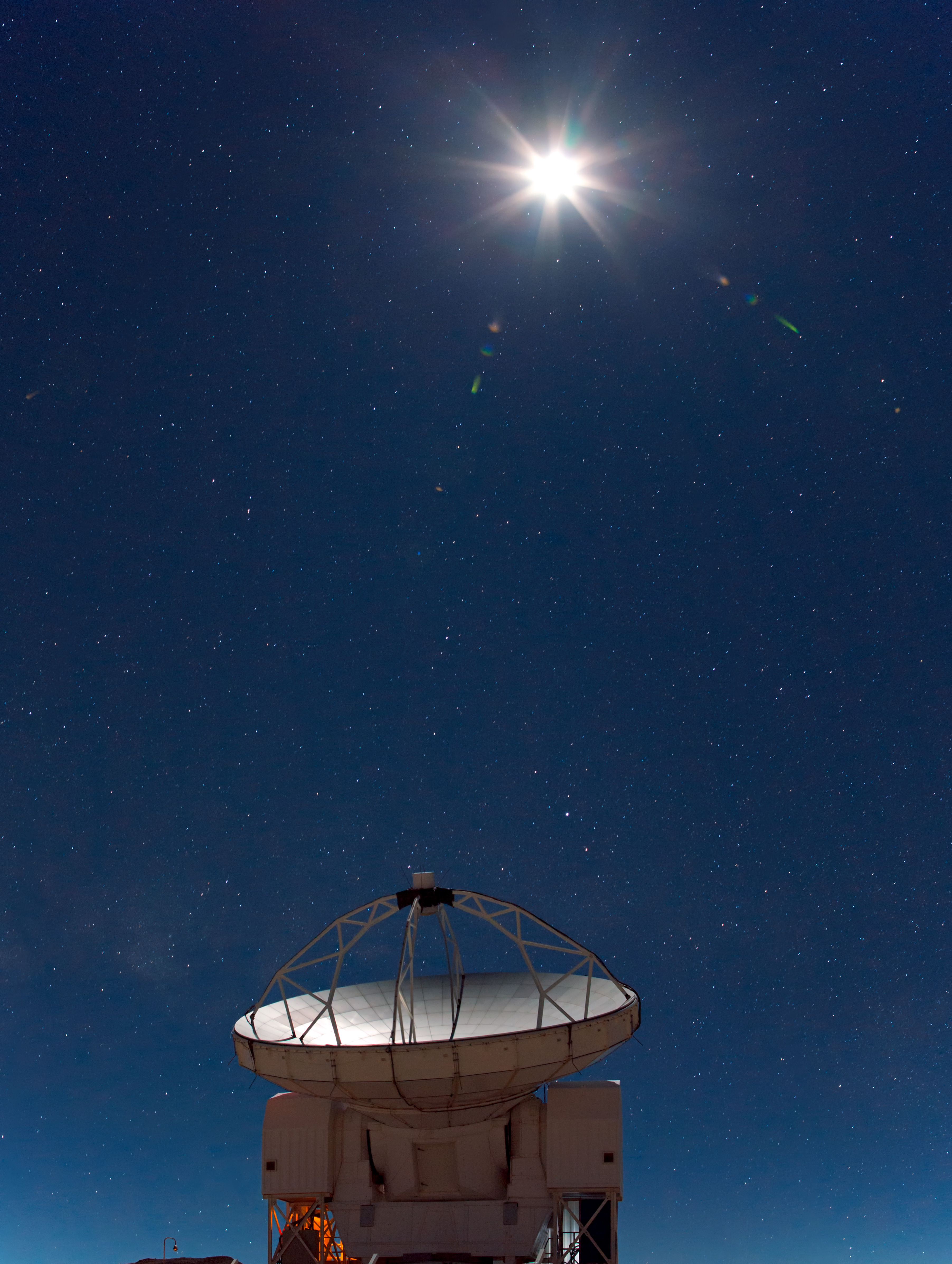 Another starry night on the Chajnantor Plateau in the Chilean Andes. The first quarter Moon glows brightly in this exposure, outshining the surrounding celestial objects. However, for radio telescopes such as APEX (the Atacama Pathfinder Experiment), seen here, the brightness of the Moon is not a problem for observations. In fact, since the Sun itself is not too bright at radio wavelengths, and these wavelengths do not brighten the sky in the same way, this telescope can even be used during the daytime, as long as it is not pointed towards the Sun. APEX is a 12-metre-diameter telescope that observes light at millimetre and submillimetre wavelengths. Astronomers observing with APEX can see phenomena which would be invisible at the shorter wavelengths of infrared or visible light. For instance, APEX can peer through dense interstellar clouds of gas and cosmic dust, revealing hidden regions of ongoing star formation which glow brightly at these wavelengths, but which may be obscured and dark in visible and infrared light. Some of the earliest and most distant galaxies are also excellent targets for APEX. Due to the expansion of the Universe over many billions of years, their light has been redshifted into APEX’s millimetre and submillimetre range. APEX is a collaboration between the Max Planck Institute for Radio Astronomy (MPIfR), the Onsala Space Observatory (OSO) and ESO. Operation of APEX at Chajnantor is entrusted to ESO. This stunning picture was taken by ESO Photo Ambassador Babak Tafreshi. It is part of a larger panorama, which is also available cropped in a different way.